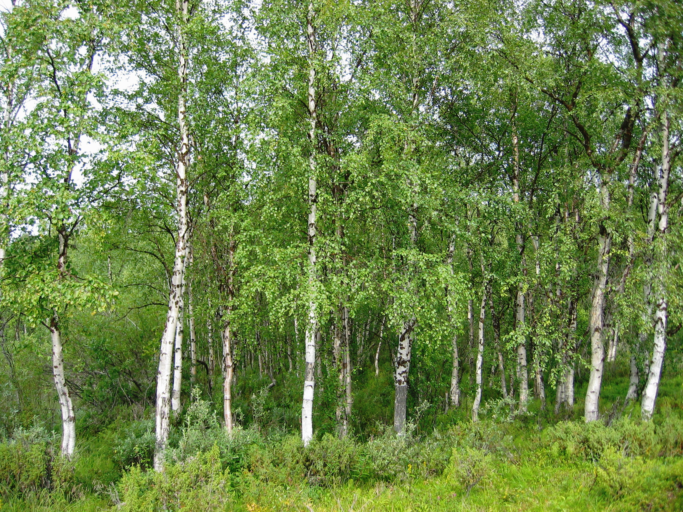 Betula pendula, Inari wilderness, Finland.